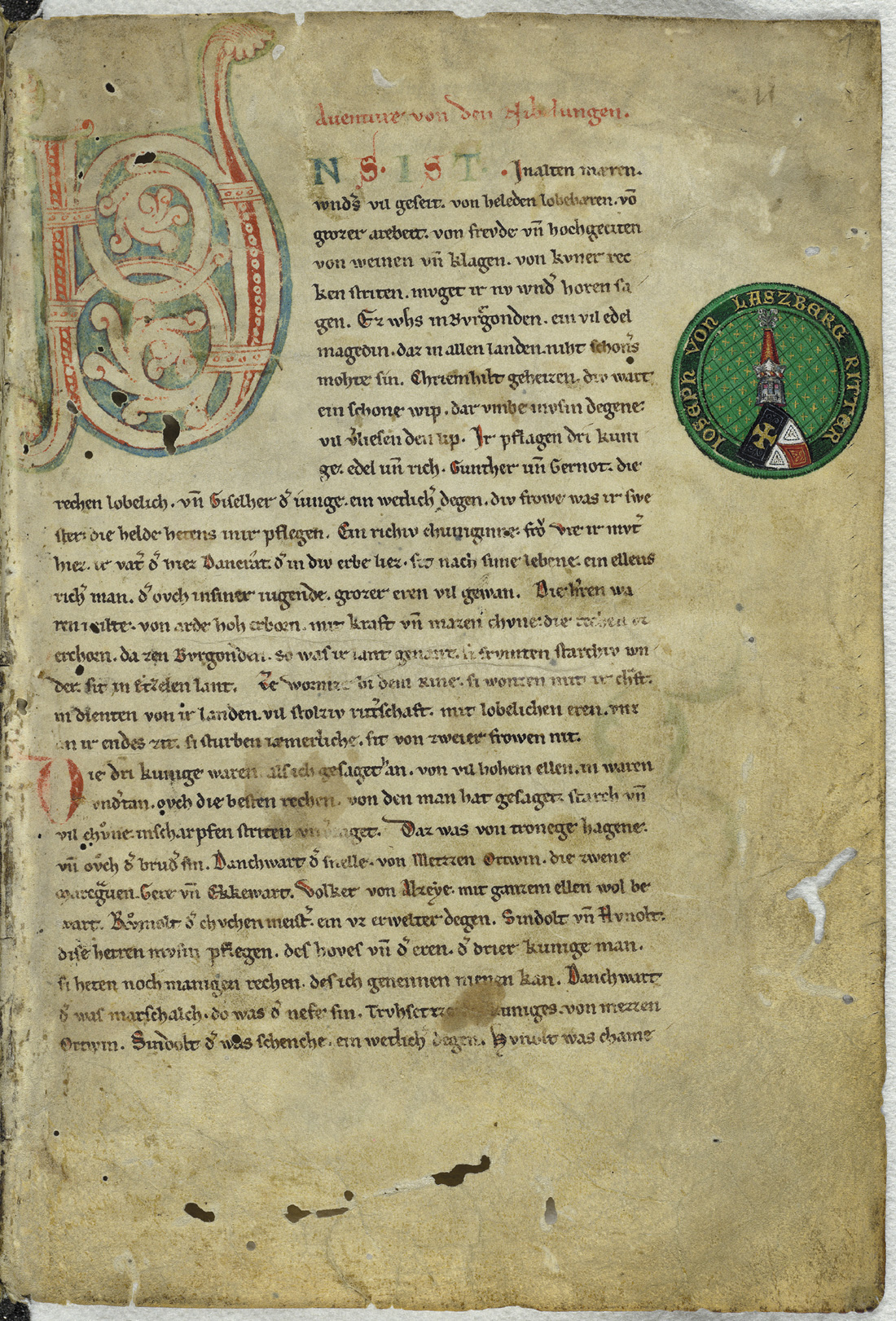 Nibelungenlied Manuscript C, Folio 1r, about 1220-1250. Owned by Landesbank Baden-Württemberg and Bundesrepublik Deutschland. Permanent loan to the Badische Landesbibliothek, Karlsruhe (Codex Donaueschingen 63).